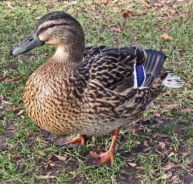 Mallard hen Anas platyrhynchos. Taken by Lupin, 13/Mar/2004